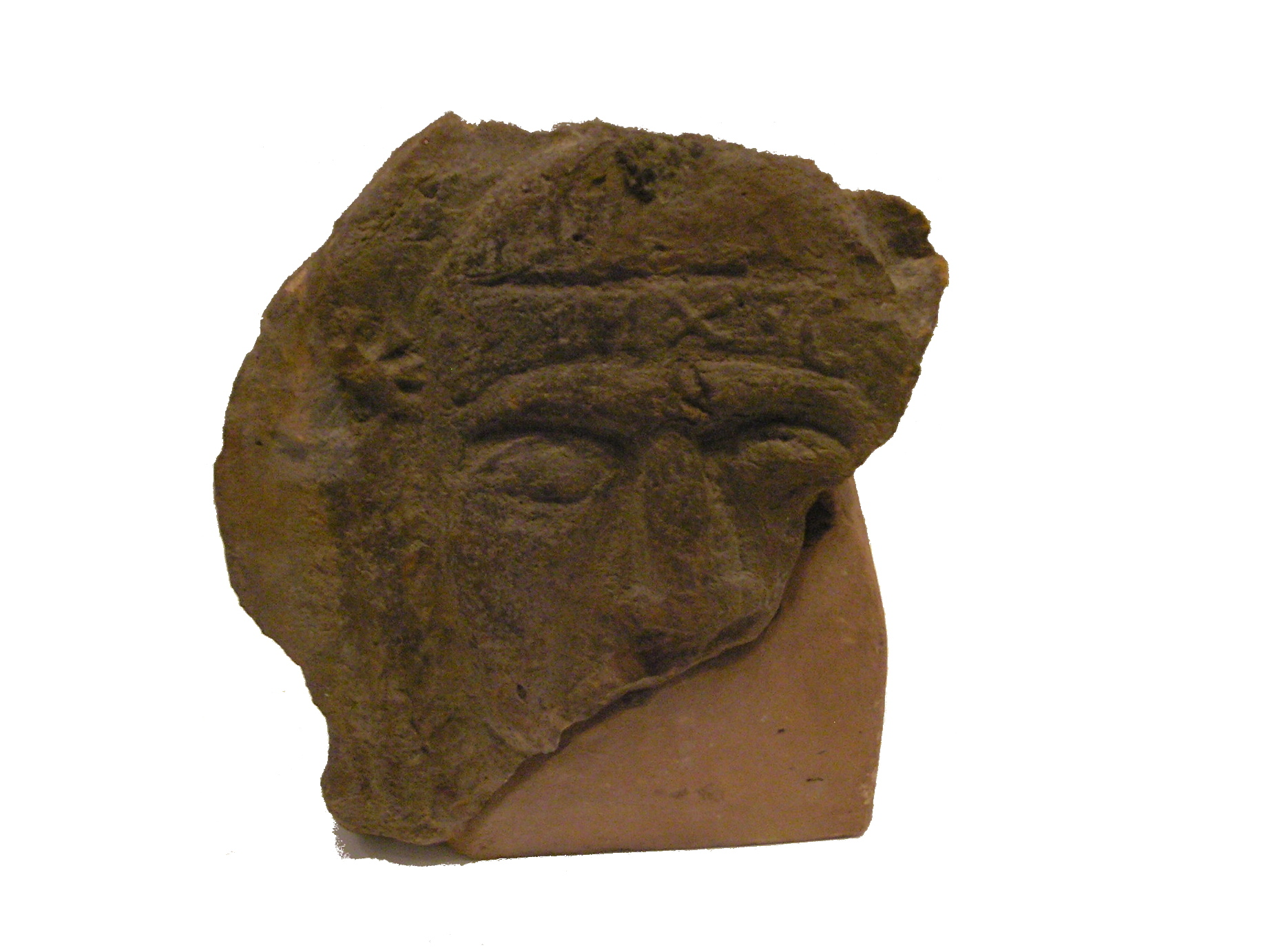 Roofing Tile (imbrex), Ceramic, 2nd/3rd Century A.D. Semi-cylindrical tiles were placed on the roof and joined large plain flat roofing tiles (tegulae) together. They prevented the intrusion of rainwater and stabilised the roof covering. The imbrex has a stamp of the 10. Legion.